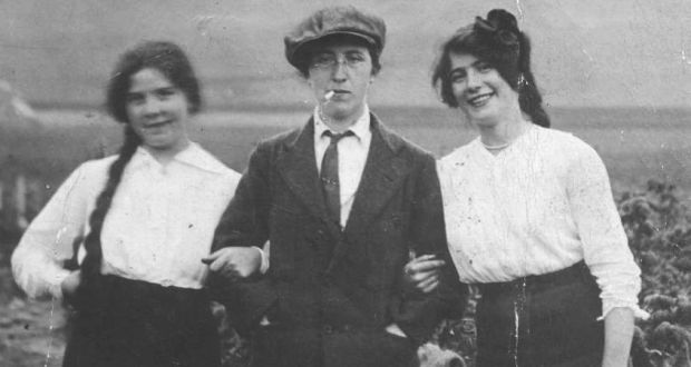 Margaret Skinnider disguised as a man. She was a Volunteer during the 1916 Rising in Ireland, and fought alongside her male revolutionaries.